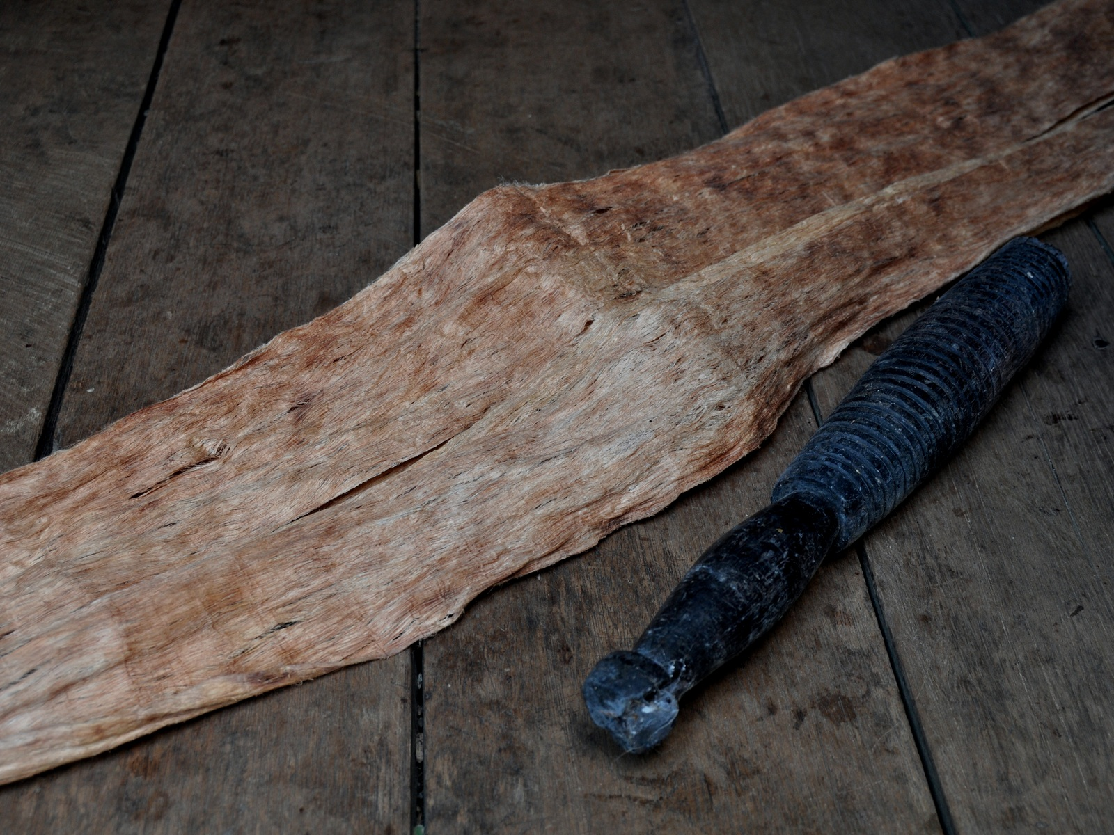 Kapuak, fibre from the inner bark of torap, young Artocarpus elasticus) tree, for making traditional rope. From Ketapang, West Kalimantan, Indonesia